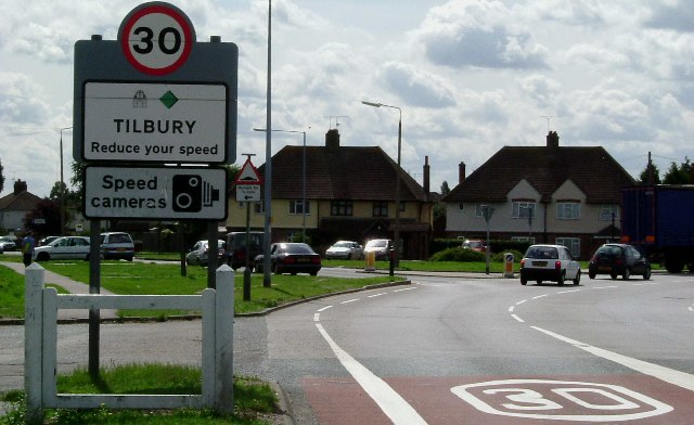 Bend on A126 Tilbury. Junction of A126 from Chadwell to Tilbury and a minor road onto an estate of 1930’s council houses (many private these days). Examples of these can be seen in the background.